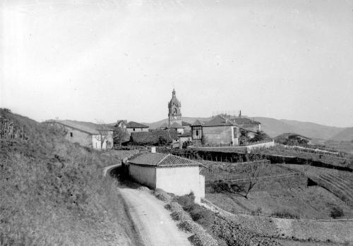 Arrieta